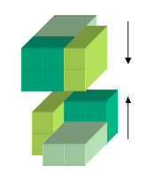 Solution of Slothouber-Graatsma puzzle showing the six 2 x 2 x 1 pieces in exploded view. Created using PowerPoint.